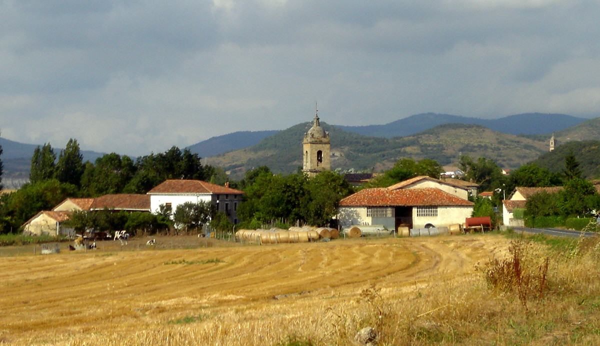 Mendibil (Araba, Basque Country, Spain)